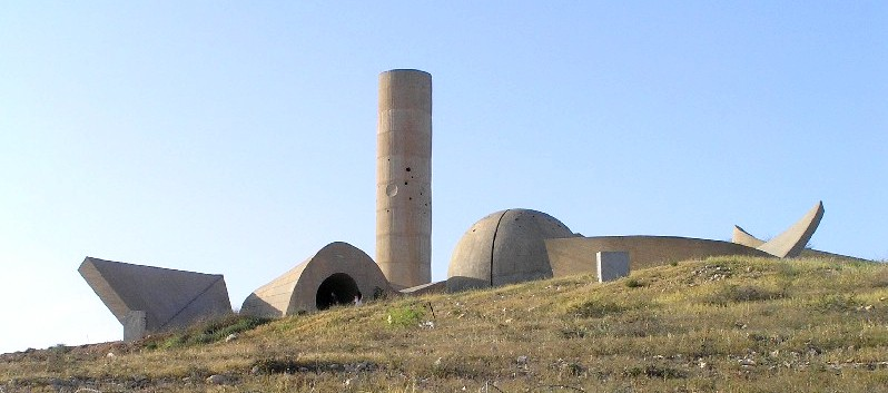 "Monument to the Negev Brigade" by Dani Karavan photographed by Eman, April 2006